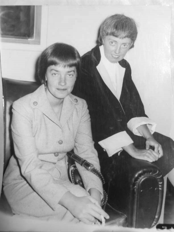 (r)Leda Valladares and (l)María Elena Walsh on an artistic visit to Tucumán, as the duo "Leda y María". Photograph from La Gaceta (Tucumán), 1956.